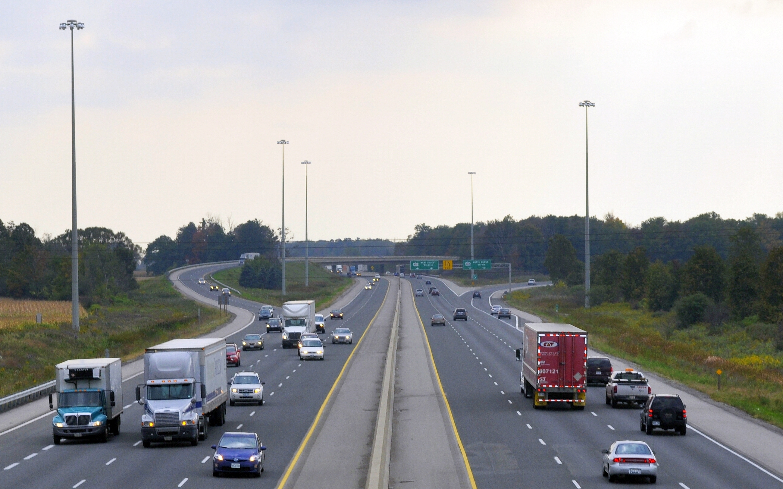 A rare photograph showing the Highway 401 / Highway 402 interchange in its entirety in London, Ontario. Taken from the Digman Drive overpass, which was under repairs at the time this photo was taken. The overpass doesn't have a sidewalk, so the only time I could take photos safely from the overpass was when the bridge was closed to vehicular traffic. Permission was granted by the nearby construction workers.